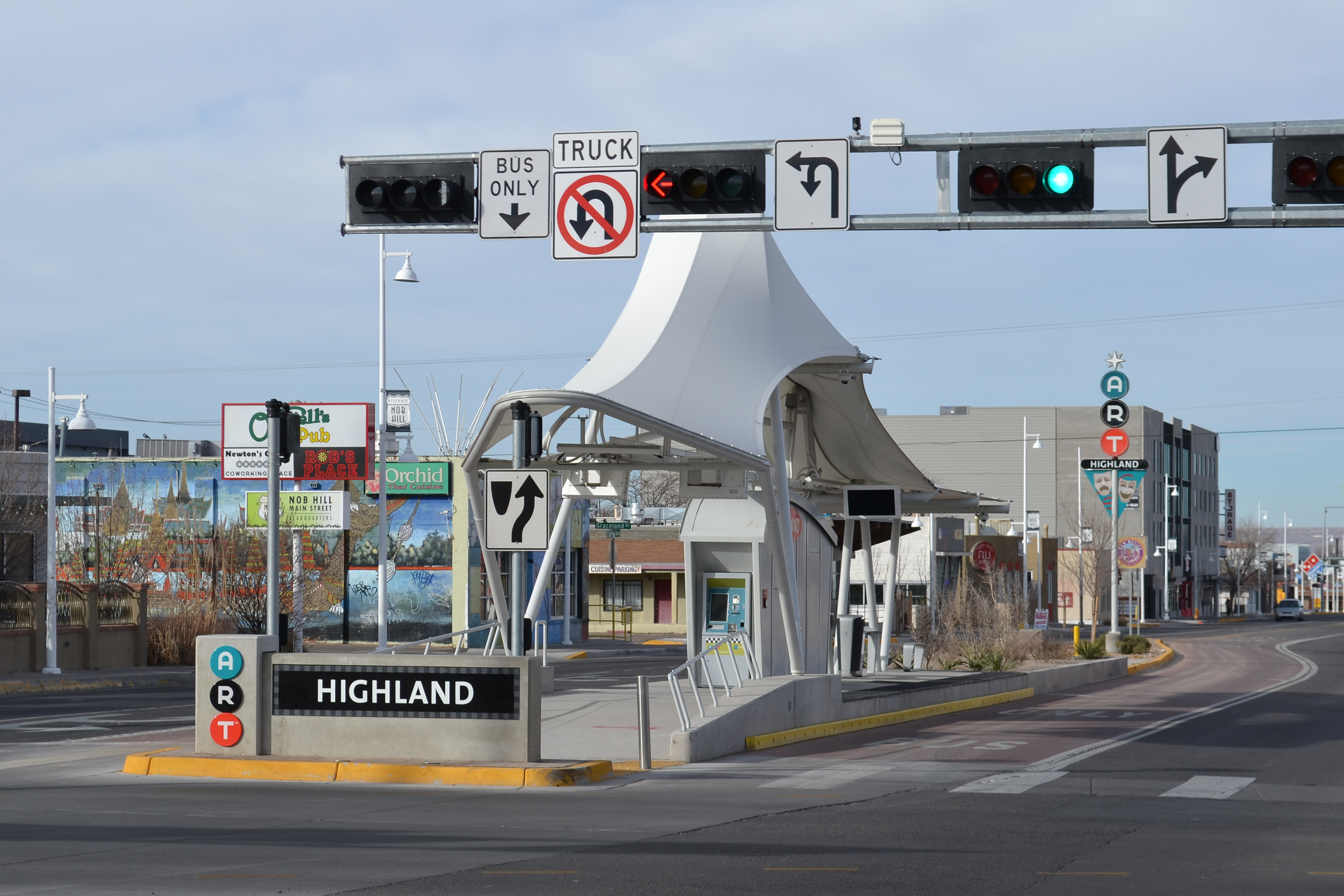 The Highland station of the Albuquerque Rapid Transit (ART) bus system in Albuquerque, New Mexico, USA